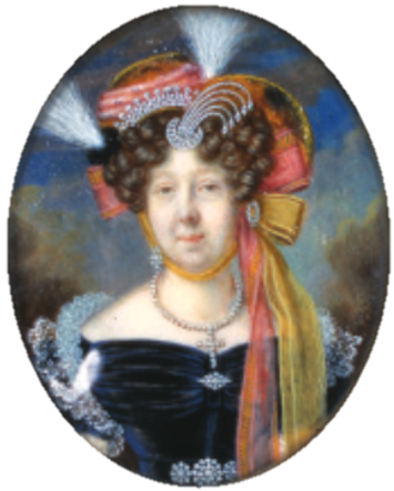 Miniature portrait of the Baronesa of Regaleira, D. Ermelinda Allen Monteiro de Almeida, with several jewels and diamonds (House of Vilar d’Allen Collection, Oporto).